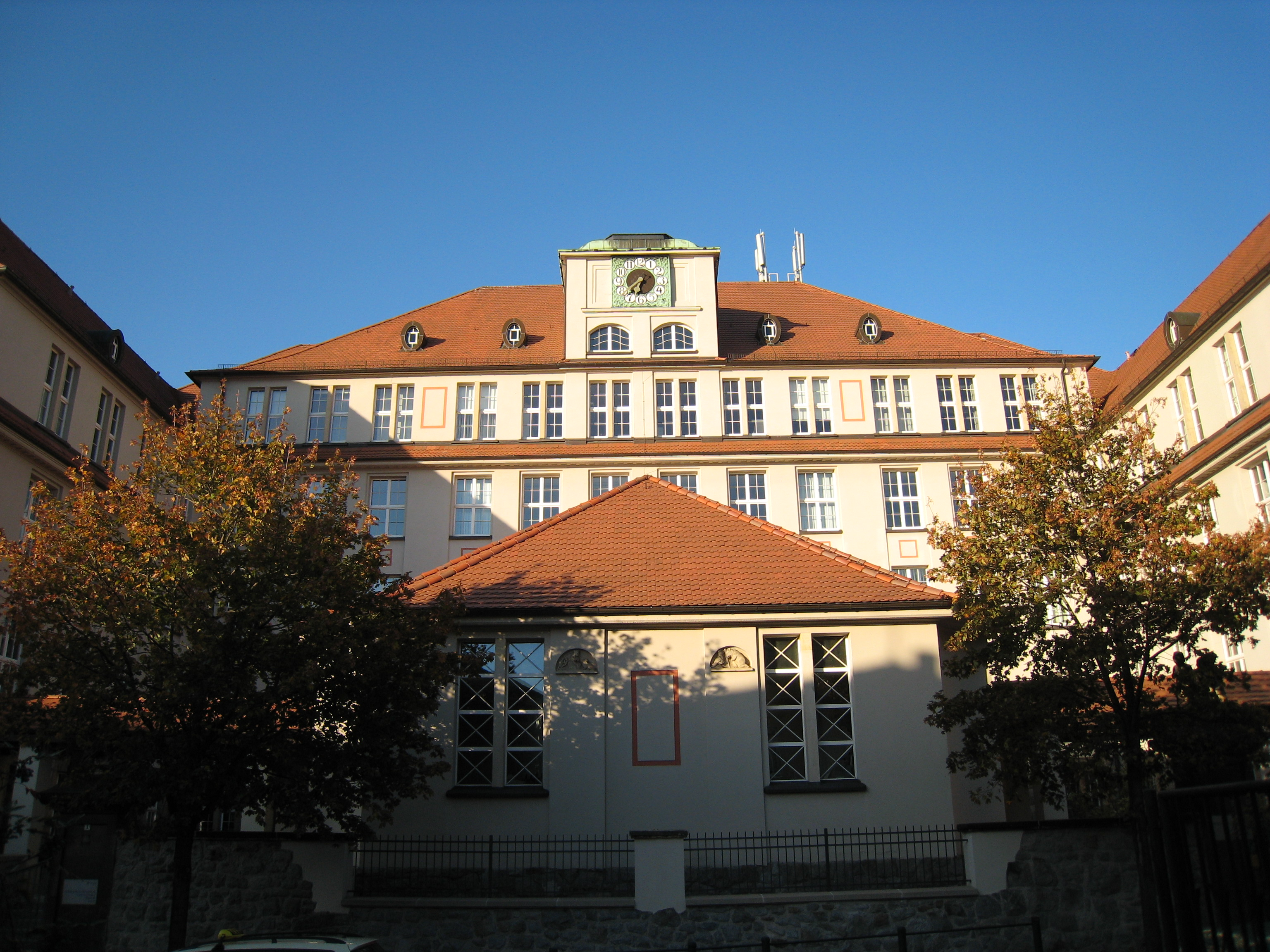 Building B of Schiller Gymnasium in Bautzen, Germany.